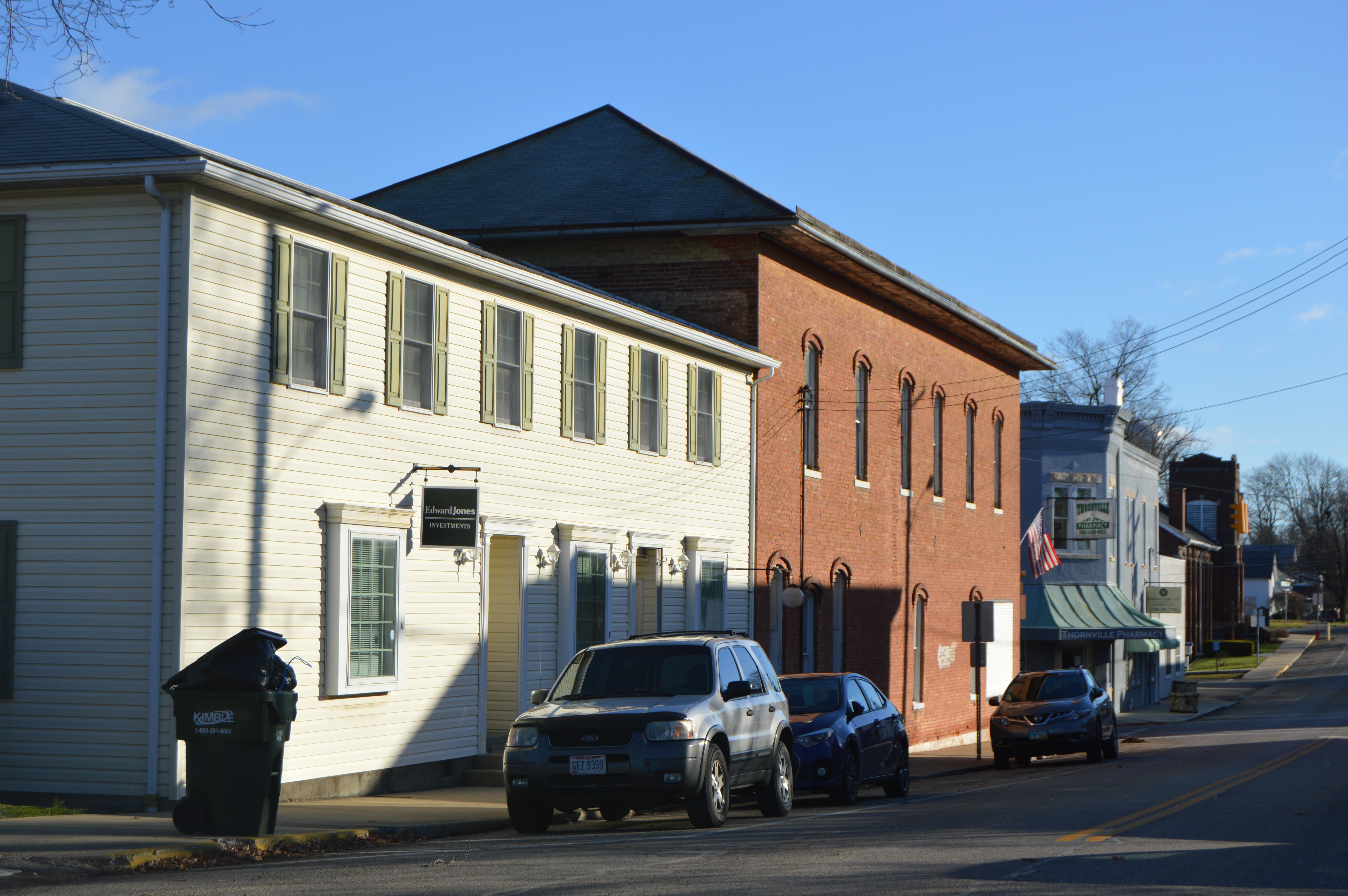 Commercial buildings on the northern side of Columbus Street (State Route 204) at the Main Street intersection in Thornville, Ohio, United States.